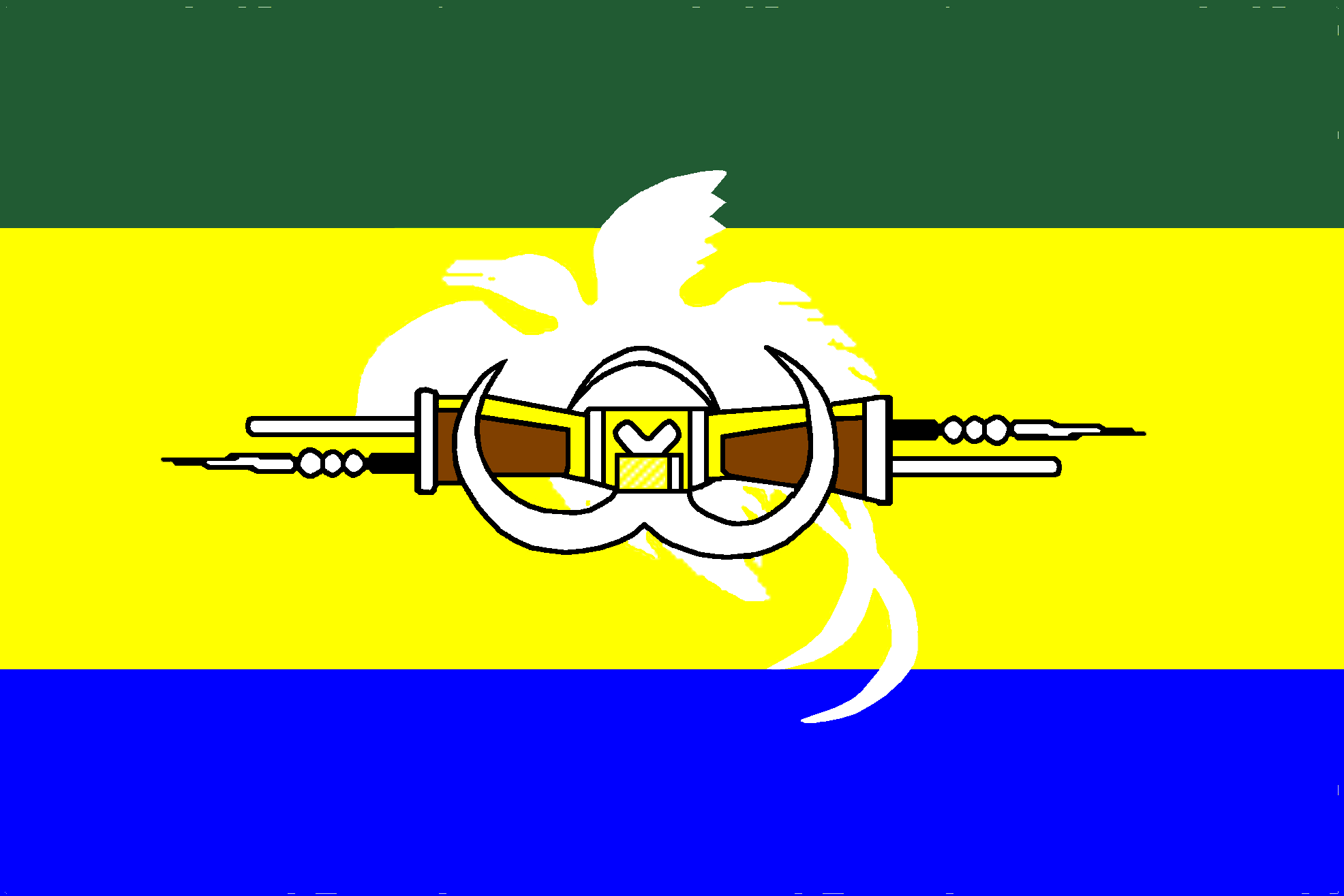 Flag of Morobe, Papua New Guinea